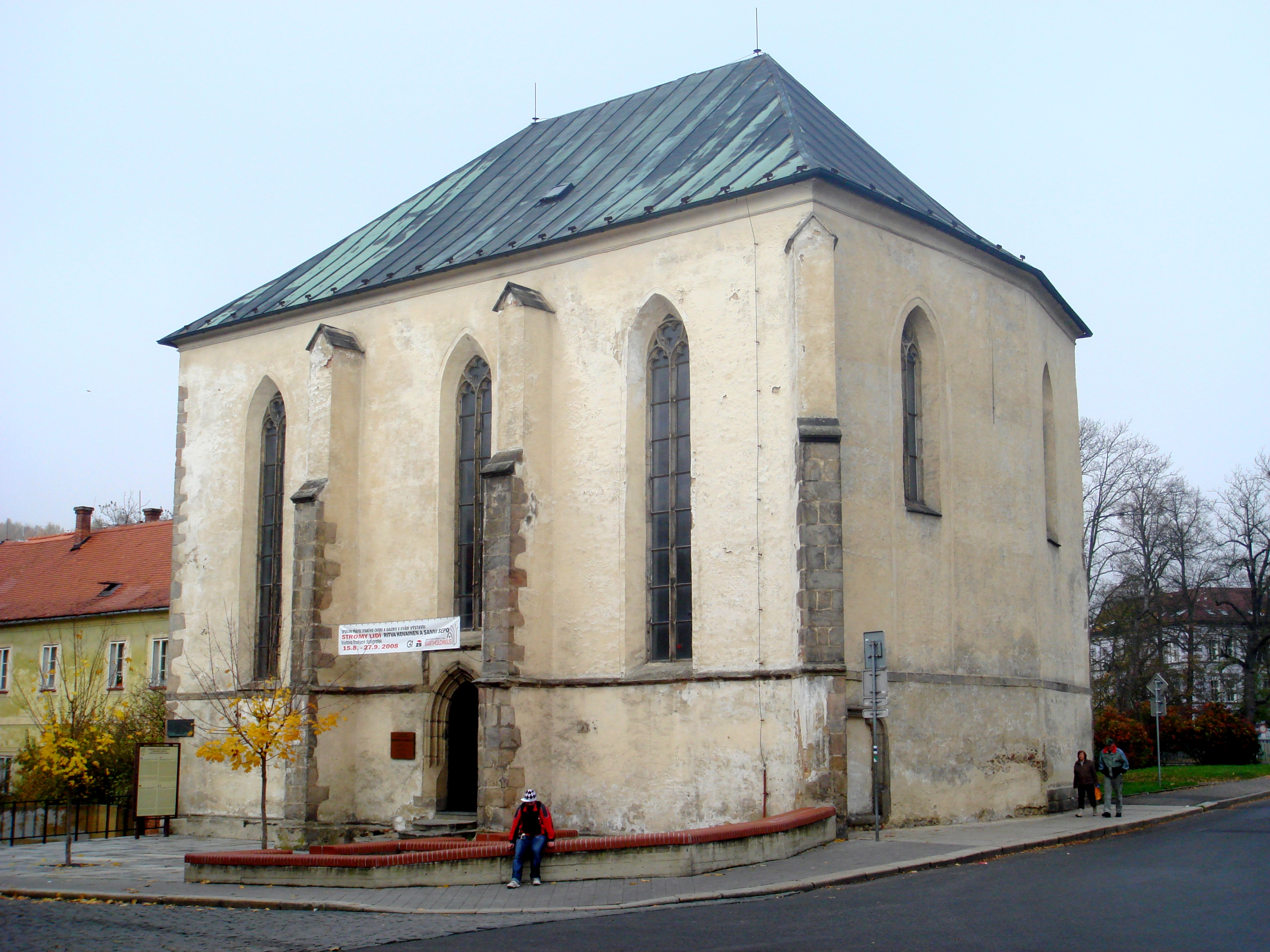 Church of St. Bartholomew in Cheb (Karlovy Vary Region, Czech Republic).